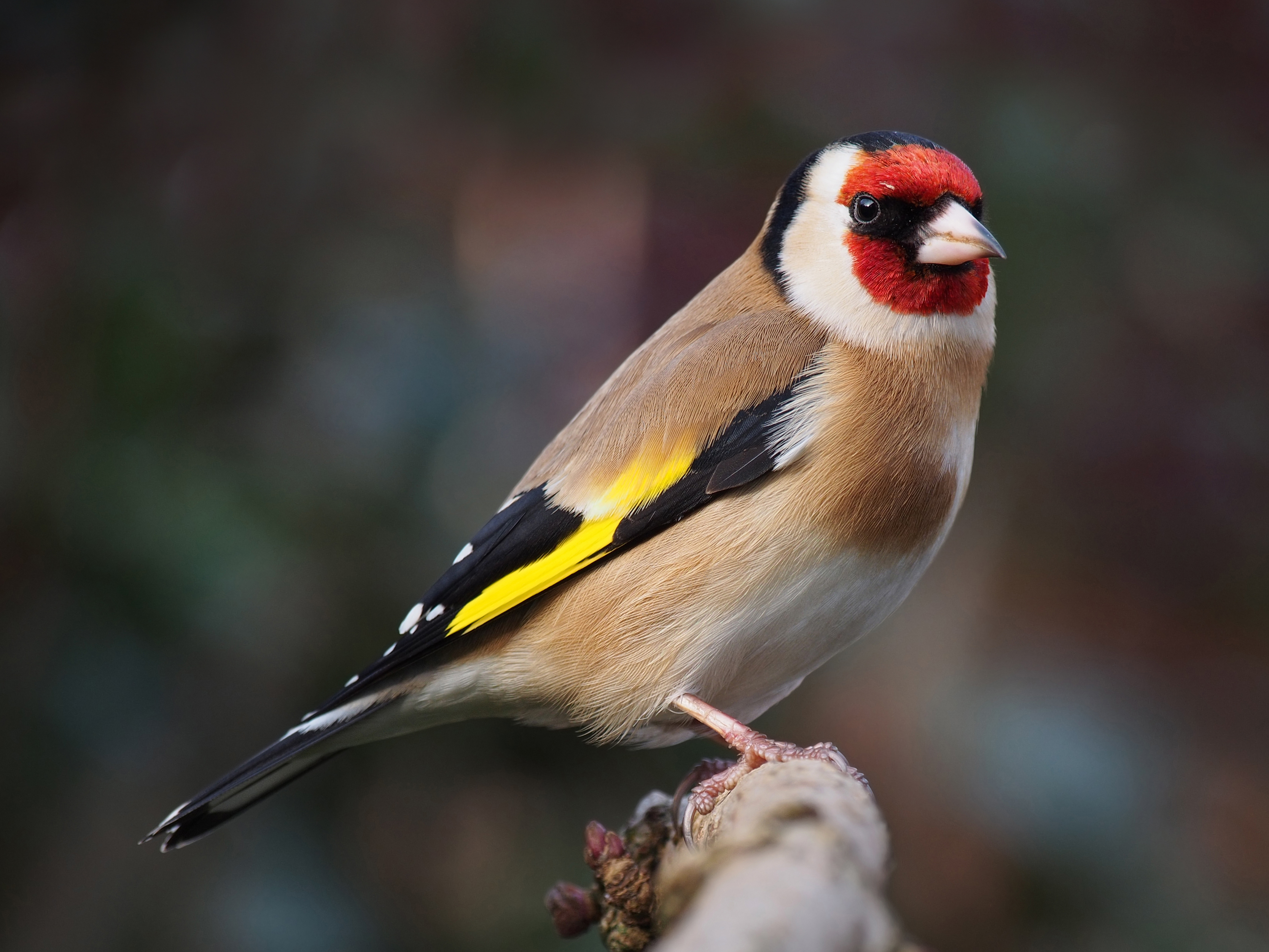 European Goldfinch, Carduelis carduelis, Lancashire, UK